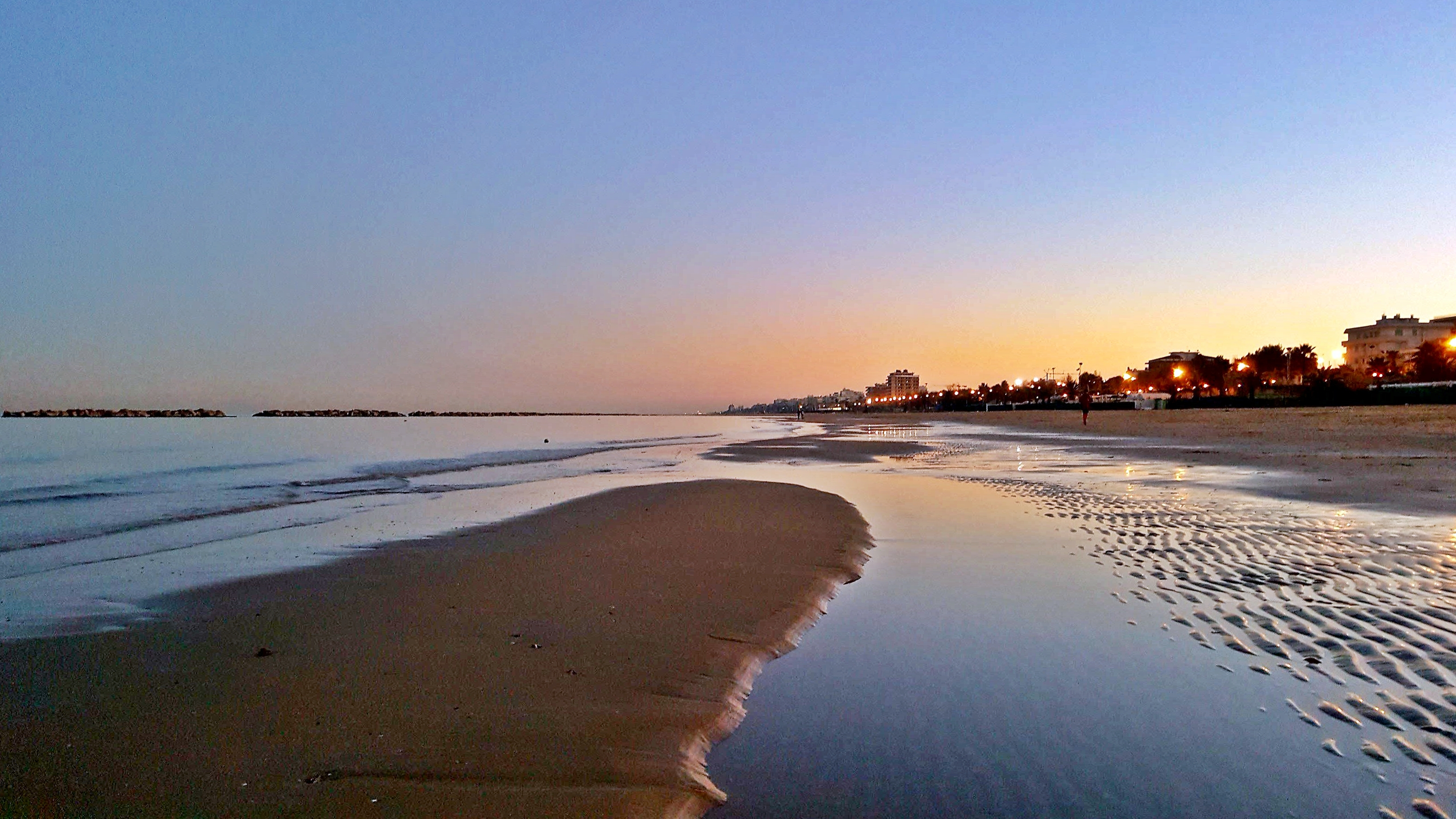 The beach of San Benedetto del Tronto in an autumn sunset